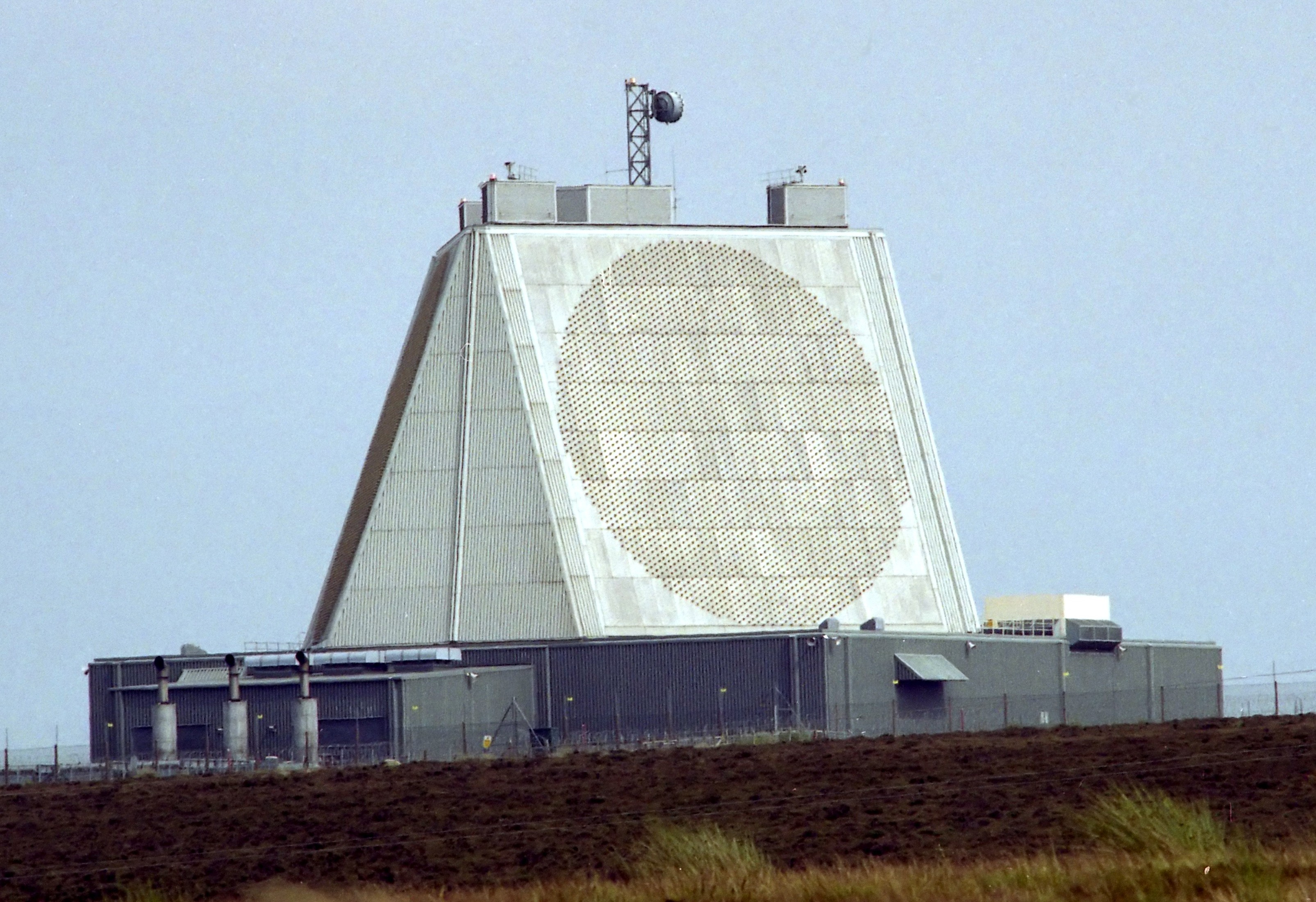 BMEWS solid-state phased-array radar at RAF Fylingdales. Photo by User:spliced